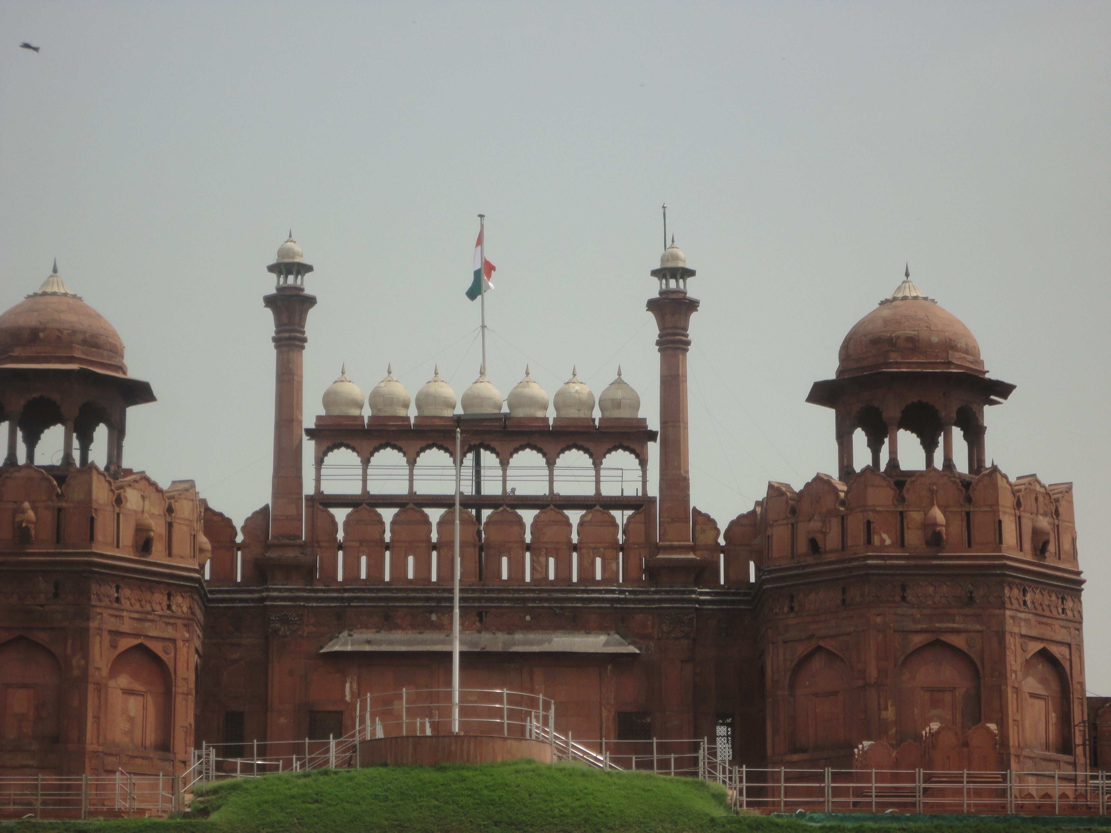 redfort new delhi